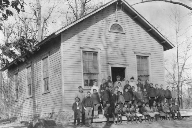 A 1904 class photo of the Cedar Grove school in Princeton, New Jersey. One of several small schools that served outlying farming communities of the township in the 19th and early 20th centuries.